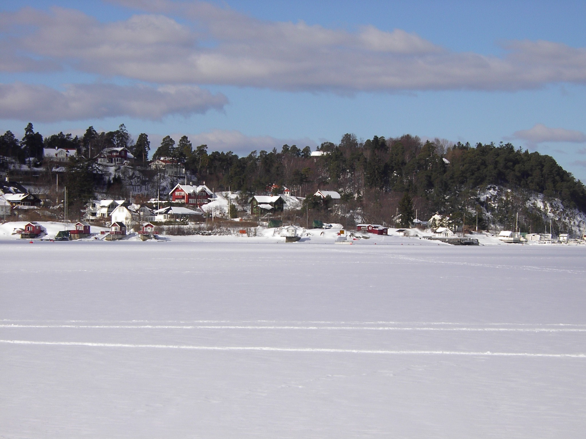 Malmøya, an island in the Oslo Fjord, in winter